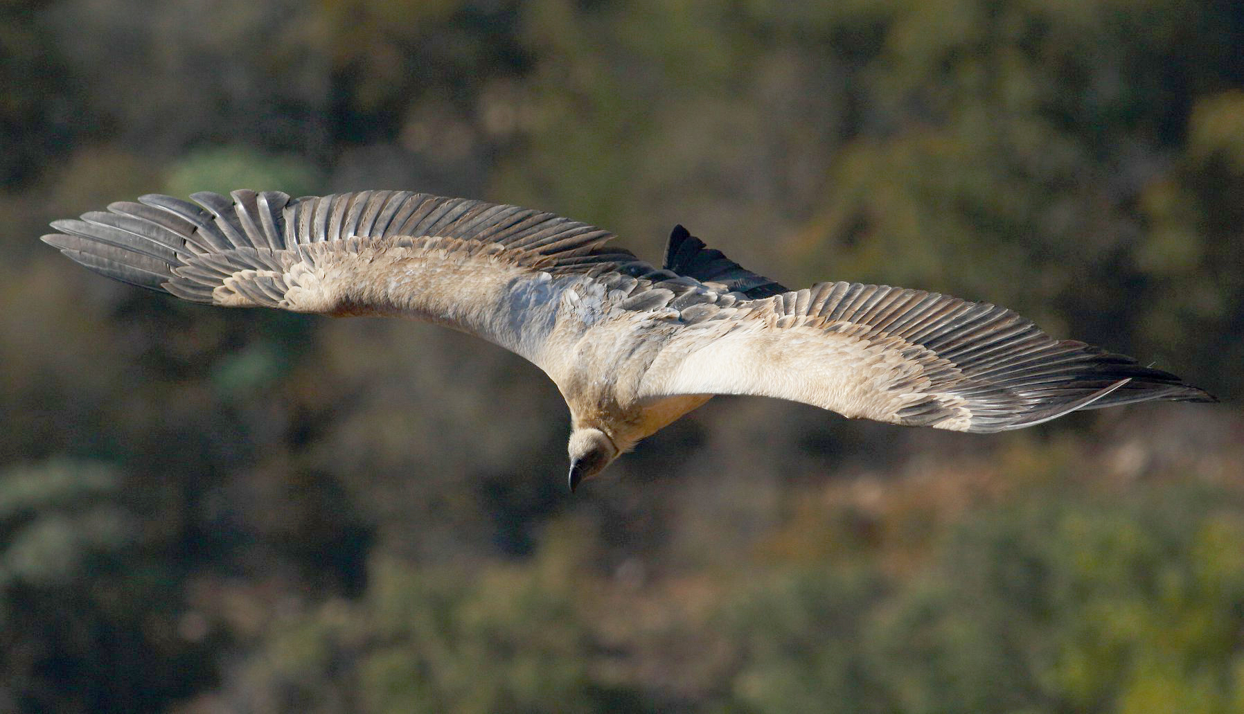 Gyps coprotheres - Cape Vulture - Magaliesberg at Nooitgedacht, Hekpoort, South Africa